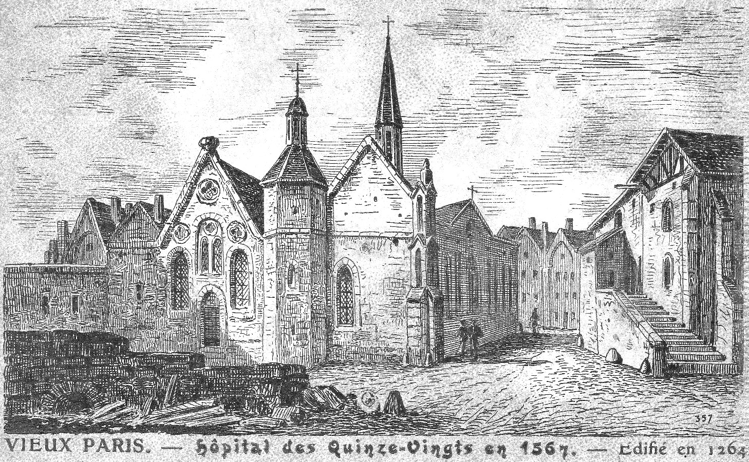 Quinze-Vingt hospital in 1567 Paris France